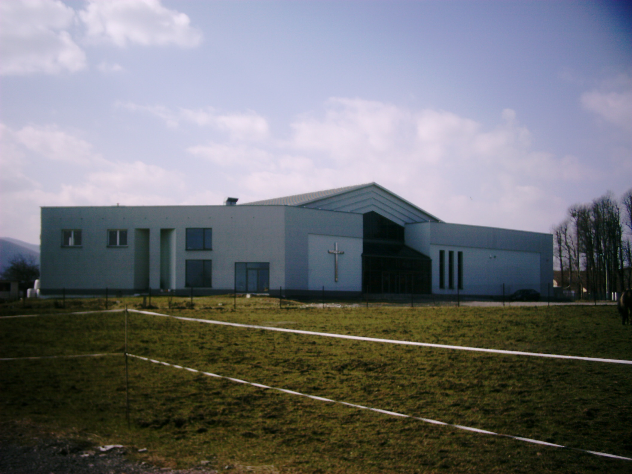 Pentecostal Church, Bielsko-Biała, Poland